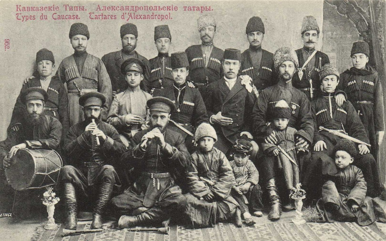 Tatars (Azerbaijanis were called "Tatars") from Aleksandropol (nowadays Gyumri)